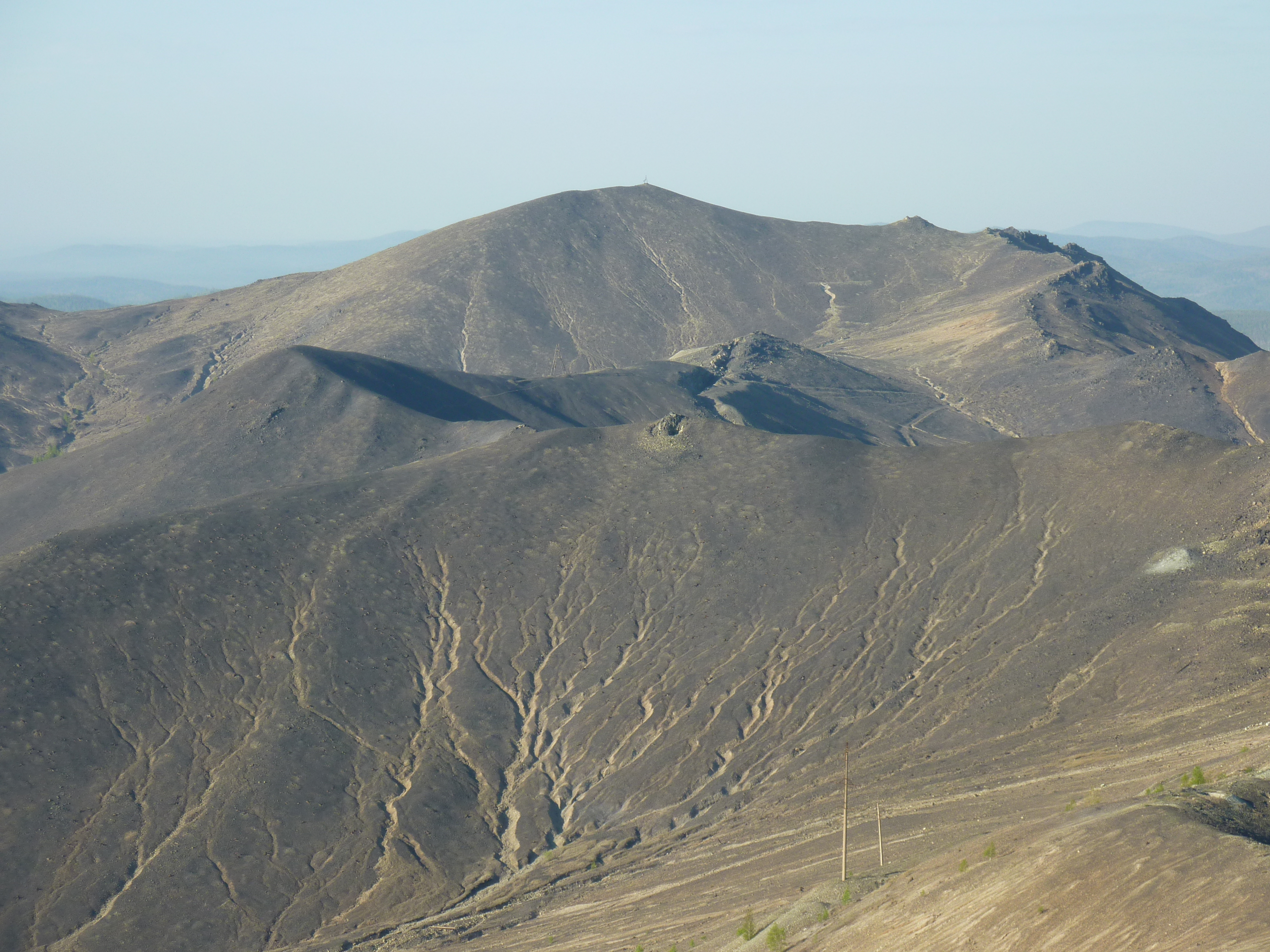 View of Mount Karabash.